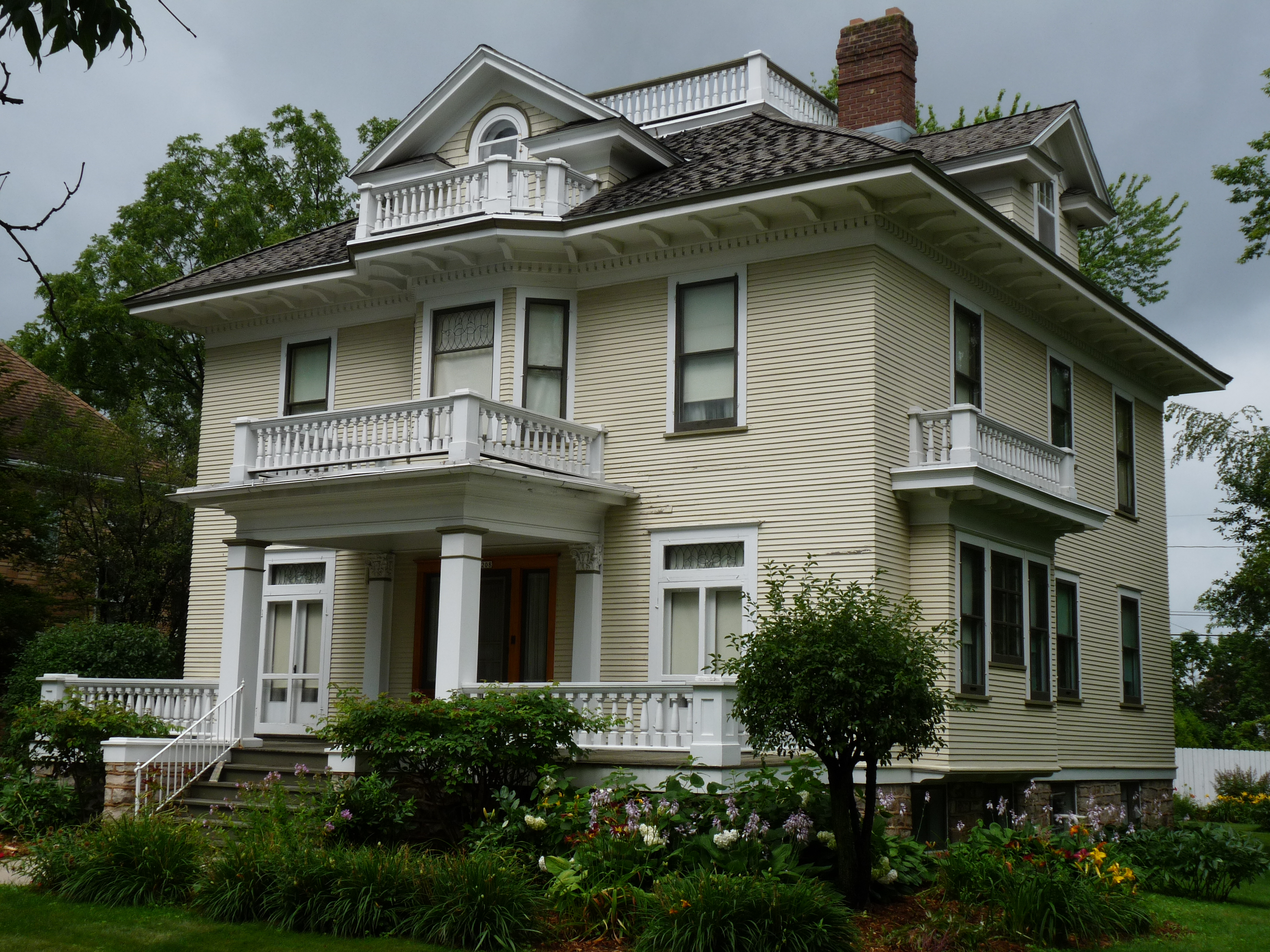 The Wahle-Laird house, at 208 S. Cherry Avenue in Marshfield, Wisconsin, USA. Example of Georgian Revival style.